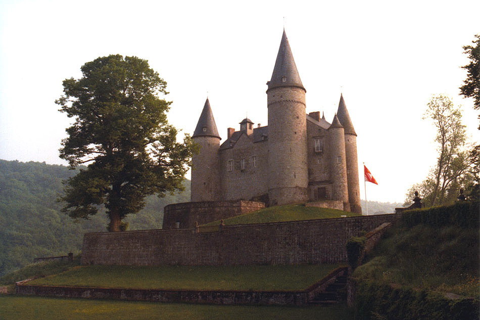 Vêves (Belgium), the Liedekerke-Beaufort family castle (XIII/XVIIIth centuries).